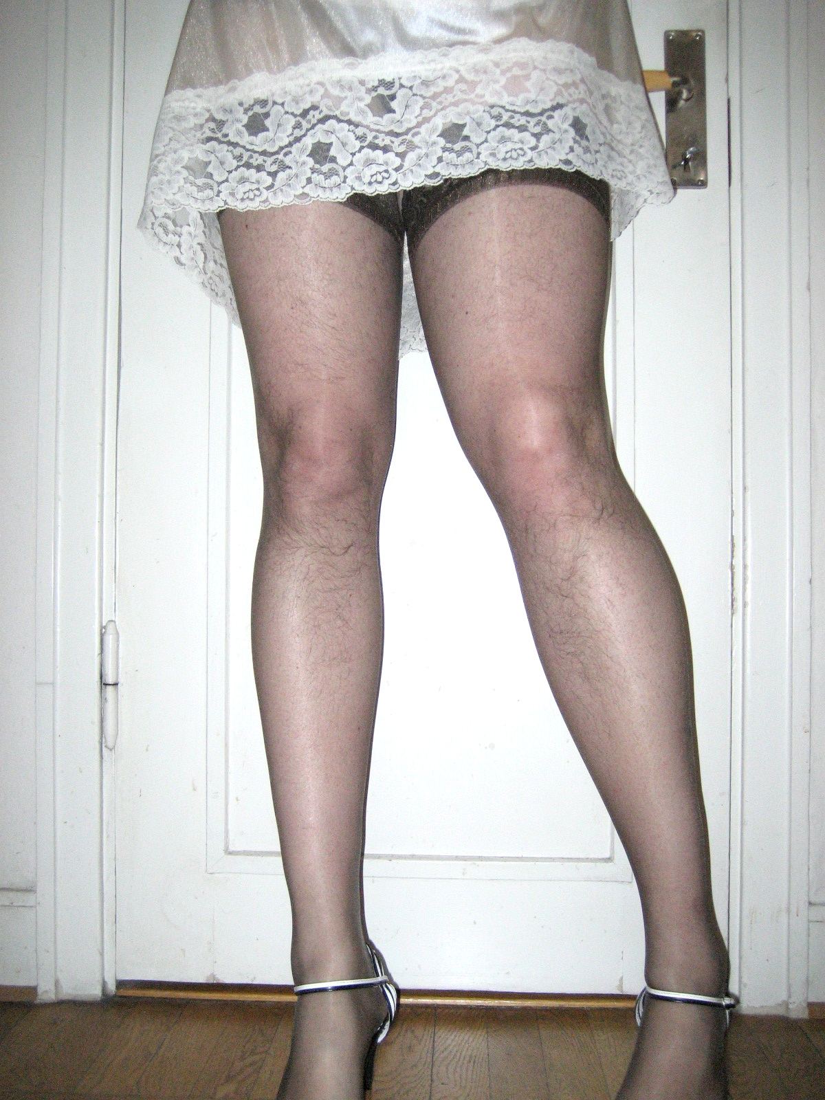 Transvestic fetishism